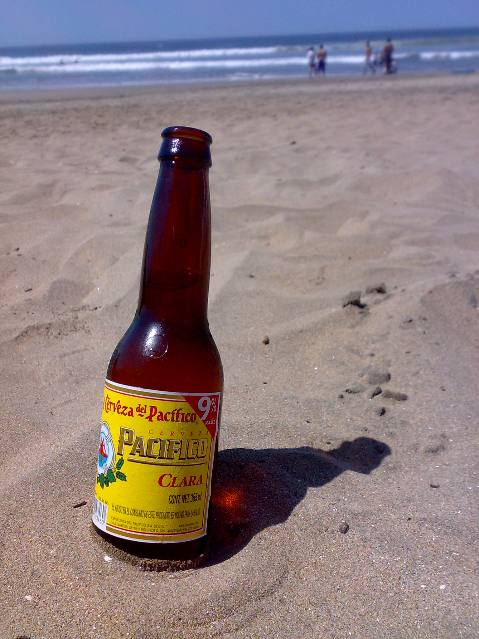 Cerveza Pacifico. Picture taken by me on the pacifican beach of Mexico easter 2008.